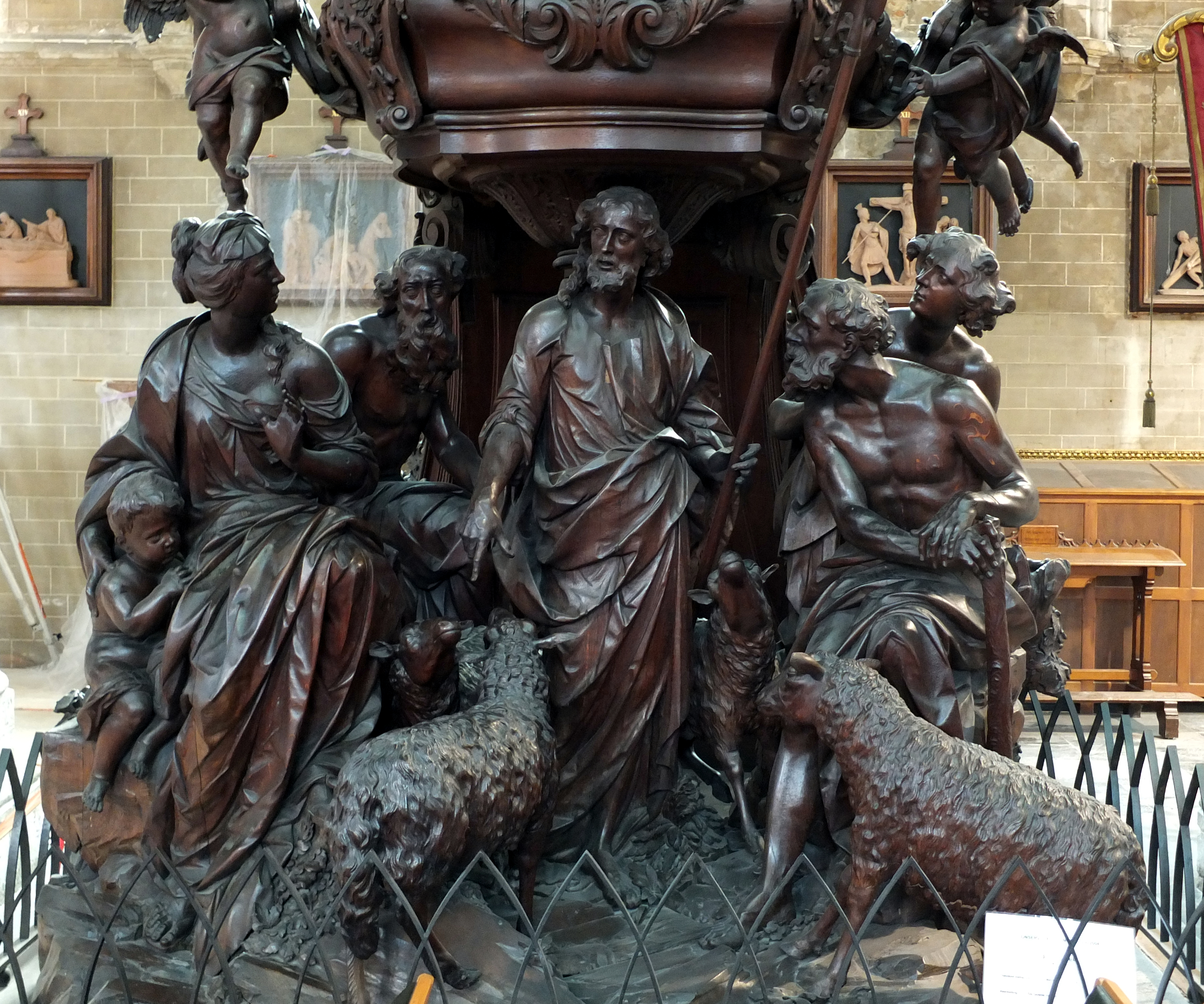 Pulpit (1736-1741) by Theodoor Verhaegen in Sint-Janskerk in Mechelen, Belgium. Christ, represented as the Good Shepherd, stands underneath the pulpit. It is a well-known image of christianity, parish priets also have to be good shepherds for their flock. The three men represent the three ages of man: everyone no matter their age should follow Jesus.